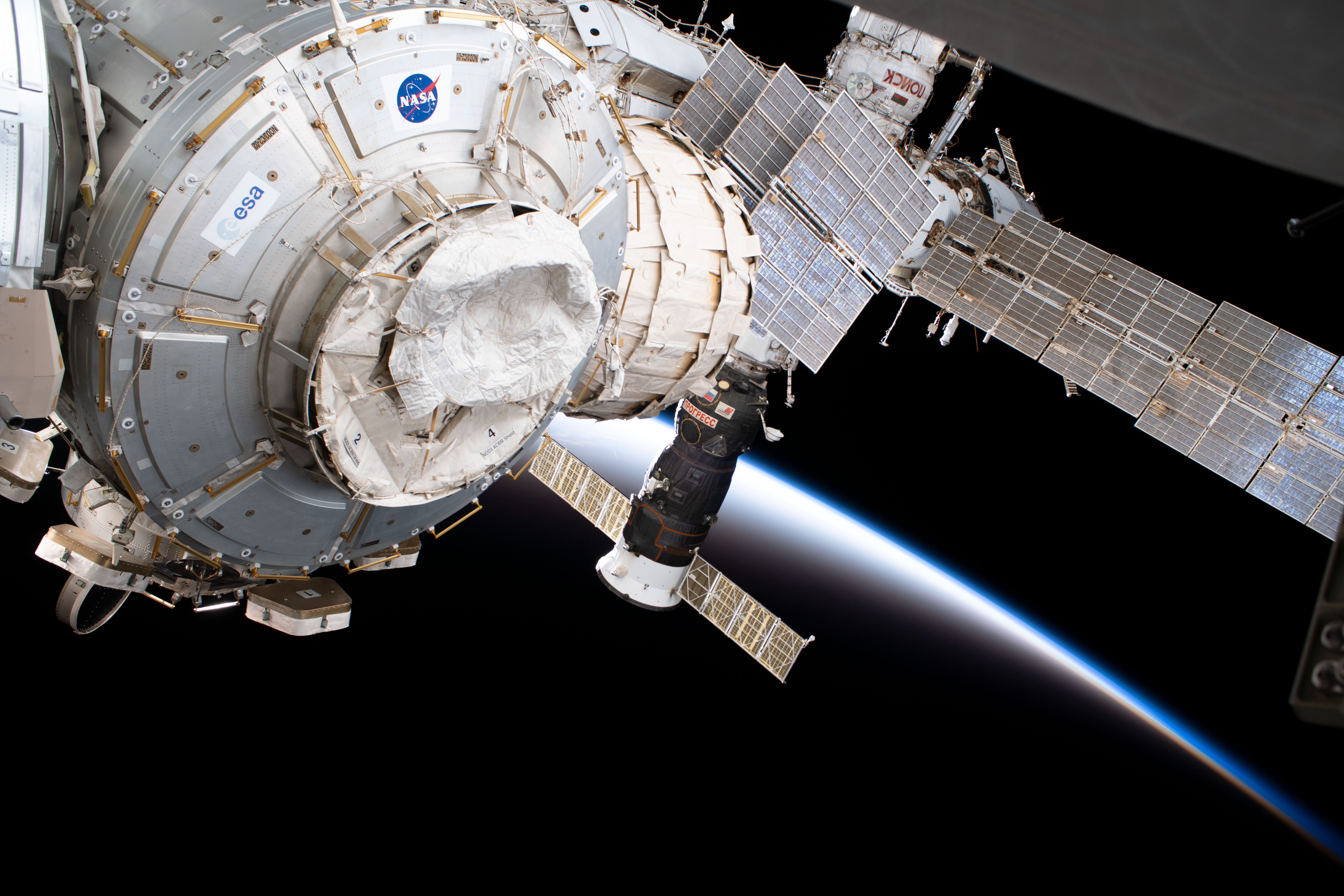 Portions of the International Space Station are pictured as the orbiting complex was flying into an orbital sunset. From front to back, are the Tranquility module, the Bigelow Expandable Activity Module (BEAM), the Progress 73 resupply ship and (up right) the Rassvet mini-research module Poisk docking compartment.